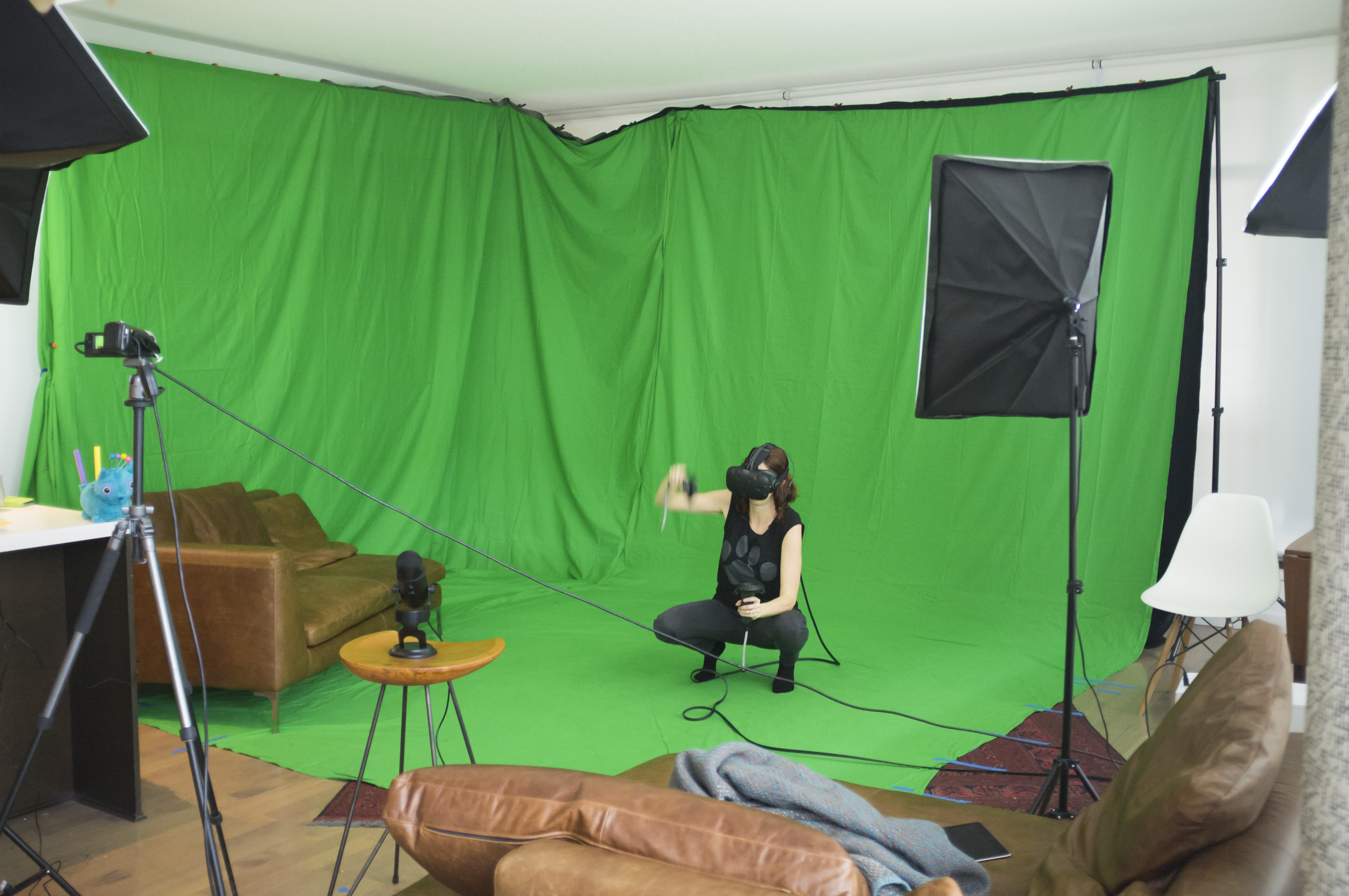 I miss our living room windows so much, but we must suffer for our art. twitch.tv/colinnorthway